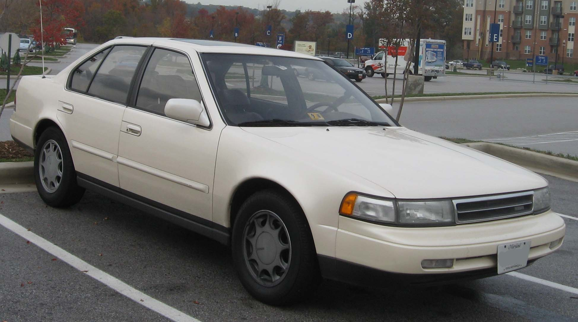 1989-1990 Nissan Maxima photographed in College Park, Maryland, USA.